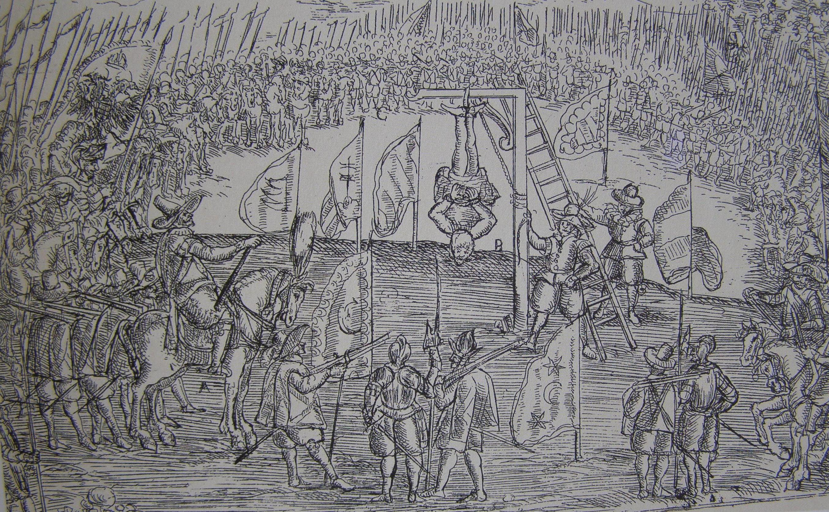 The Barbarism of General Giorgio Basta in Hungary, 1604